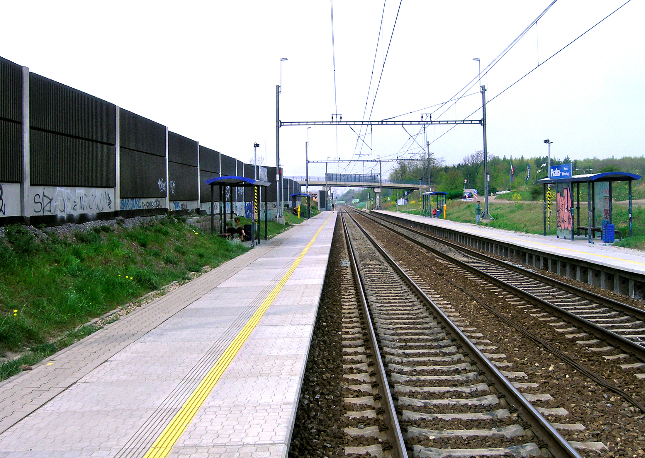 Railway station at Horní Měcholupy, Prague